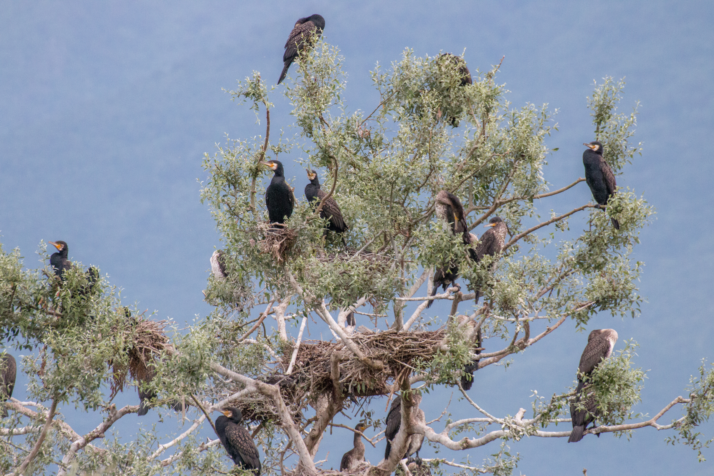 Natural life in Kekrini lake, Serres, Greece This is a photography of Natura 2000 protected area with ID GR1260008